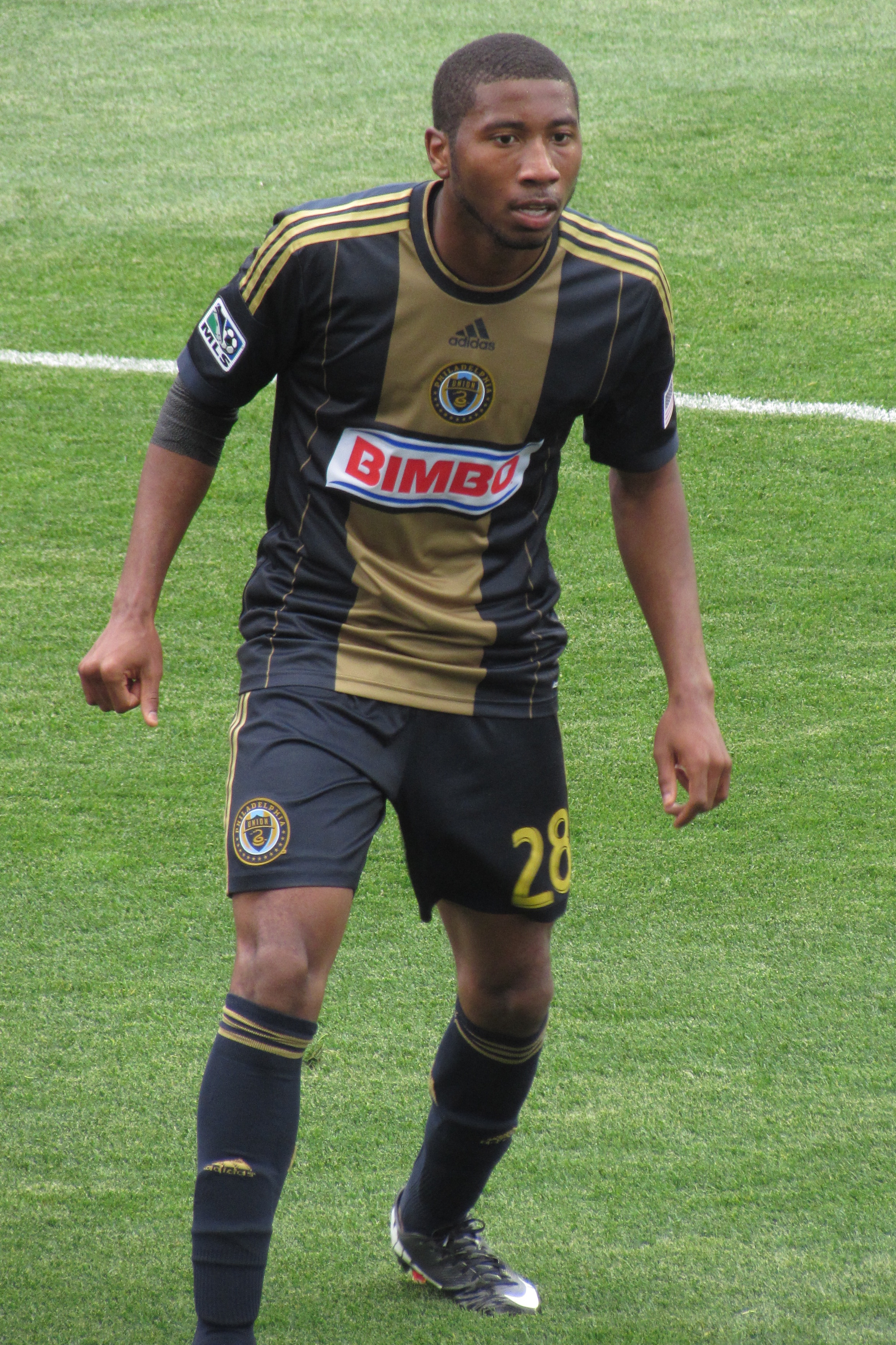 LB/RB for the Philadelphia Union.